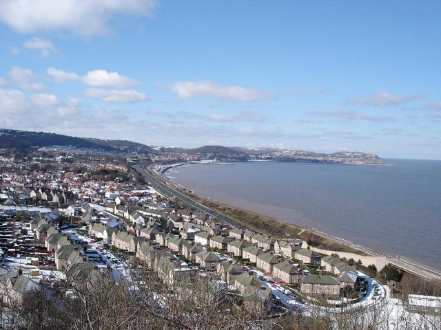 Colwyn Bay. The town, beach, A55 and the railway seen from Colwyn Heights